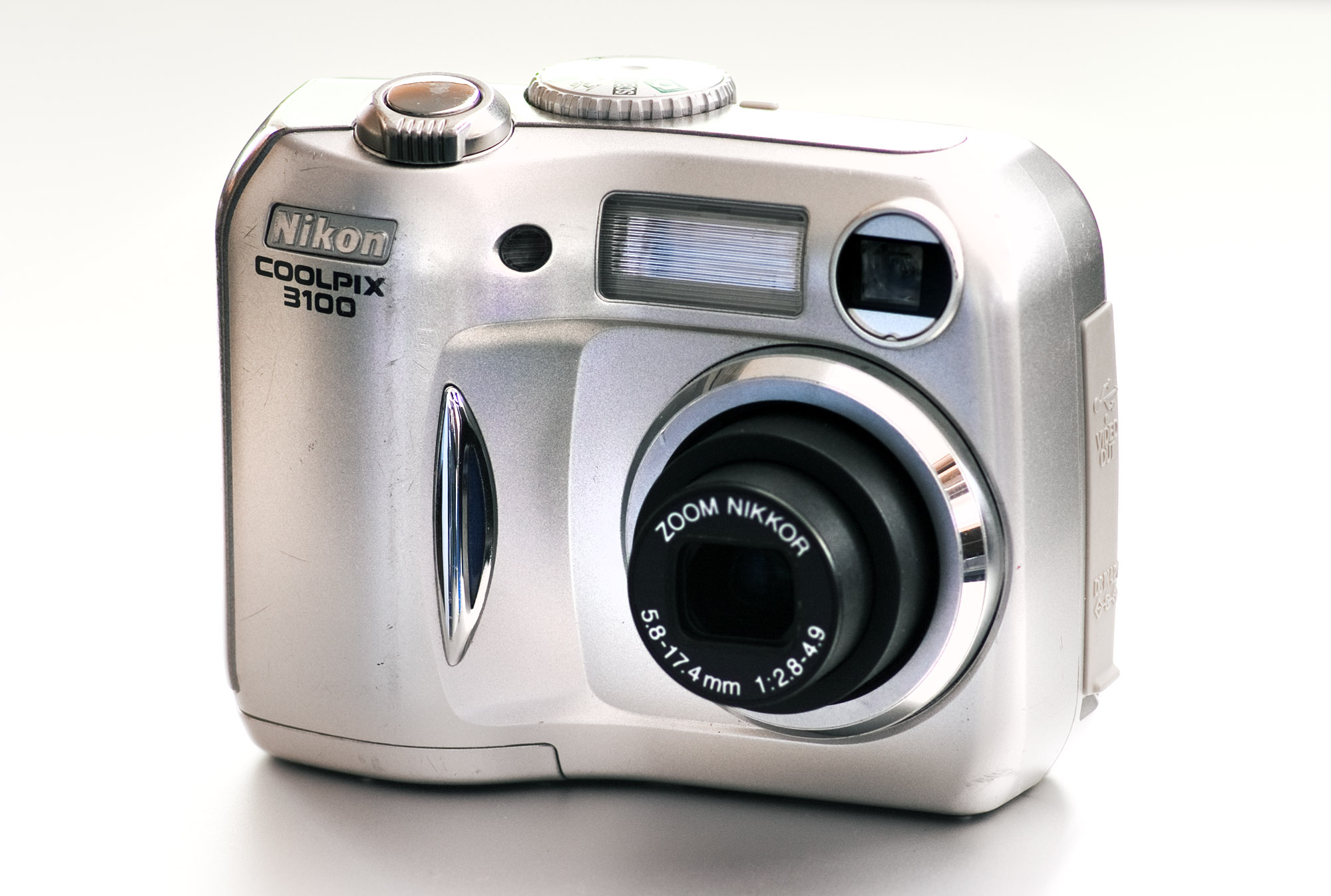 A Nikon Coolpix 3100